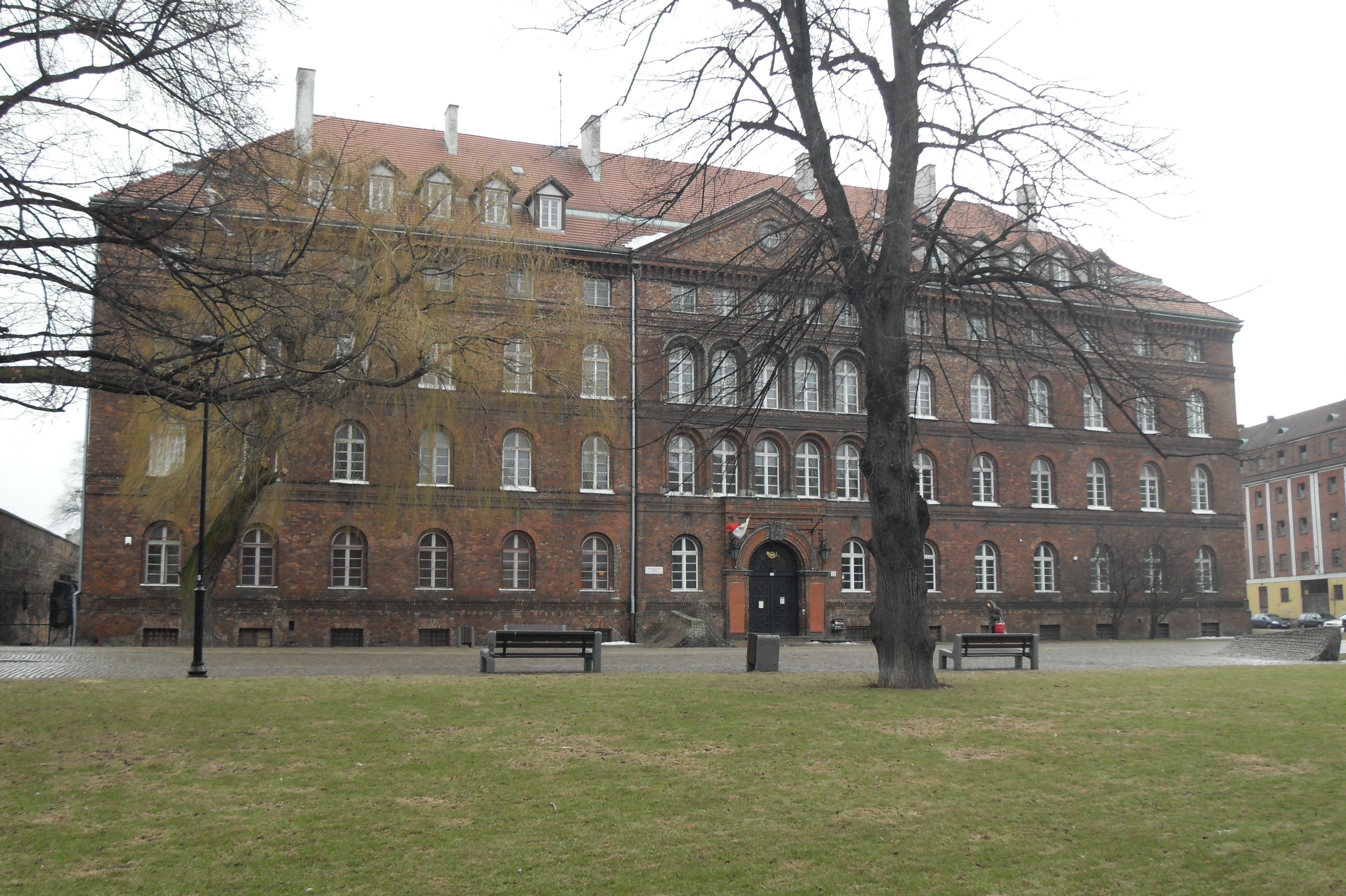 Pre-war Polish Post Office in Free City of Danzig (today Gdańsk, Poland), 2010.